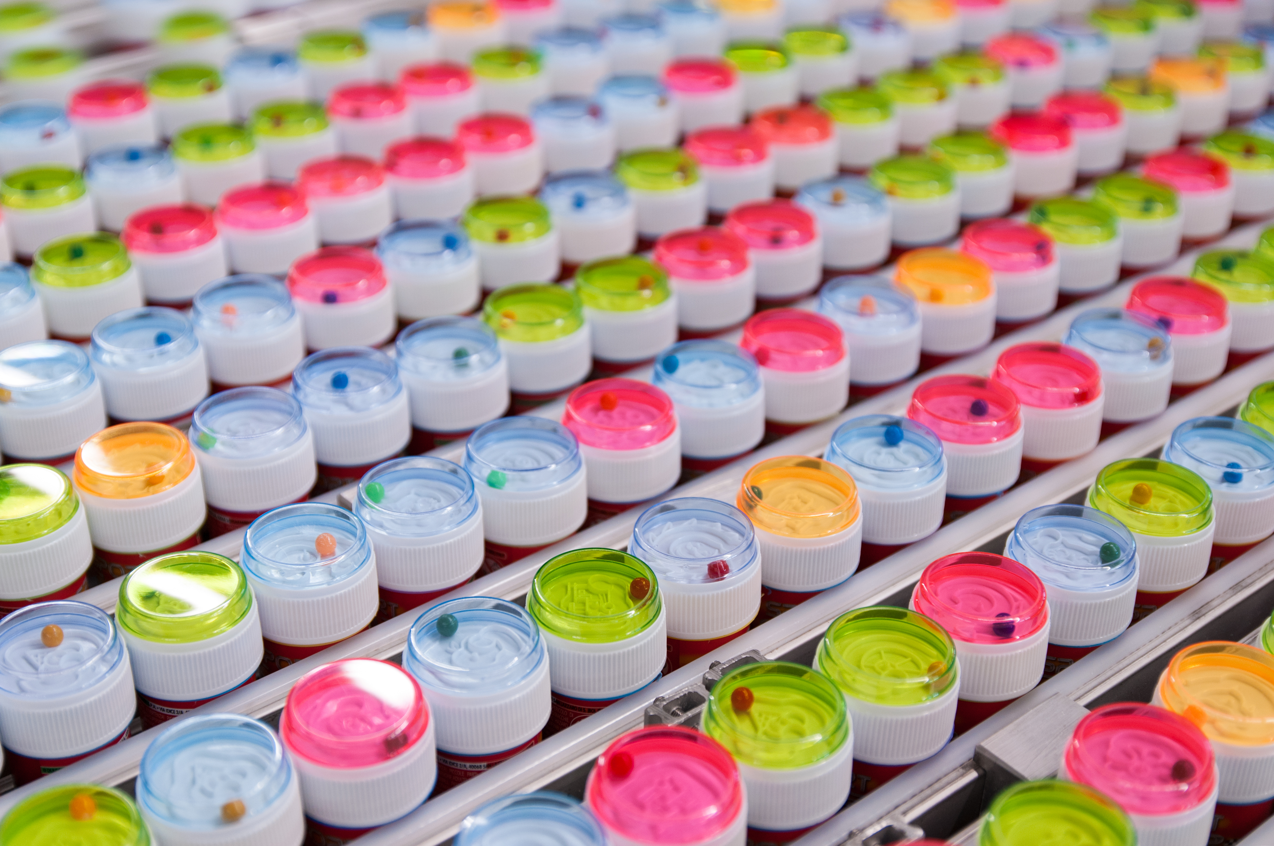 This is the 60ml line: the bottles are available in 4 random colors.The labyrinth is the element that makes Dulcop recognizable all over the world.